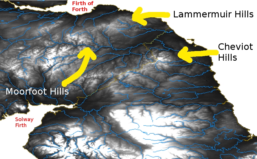 Relief map showing the Lammermuir, Moorfoot, and Cheviot Hills.